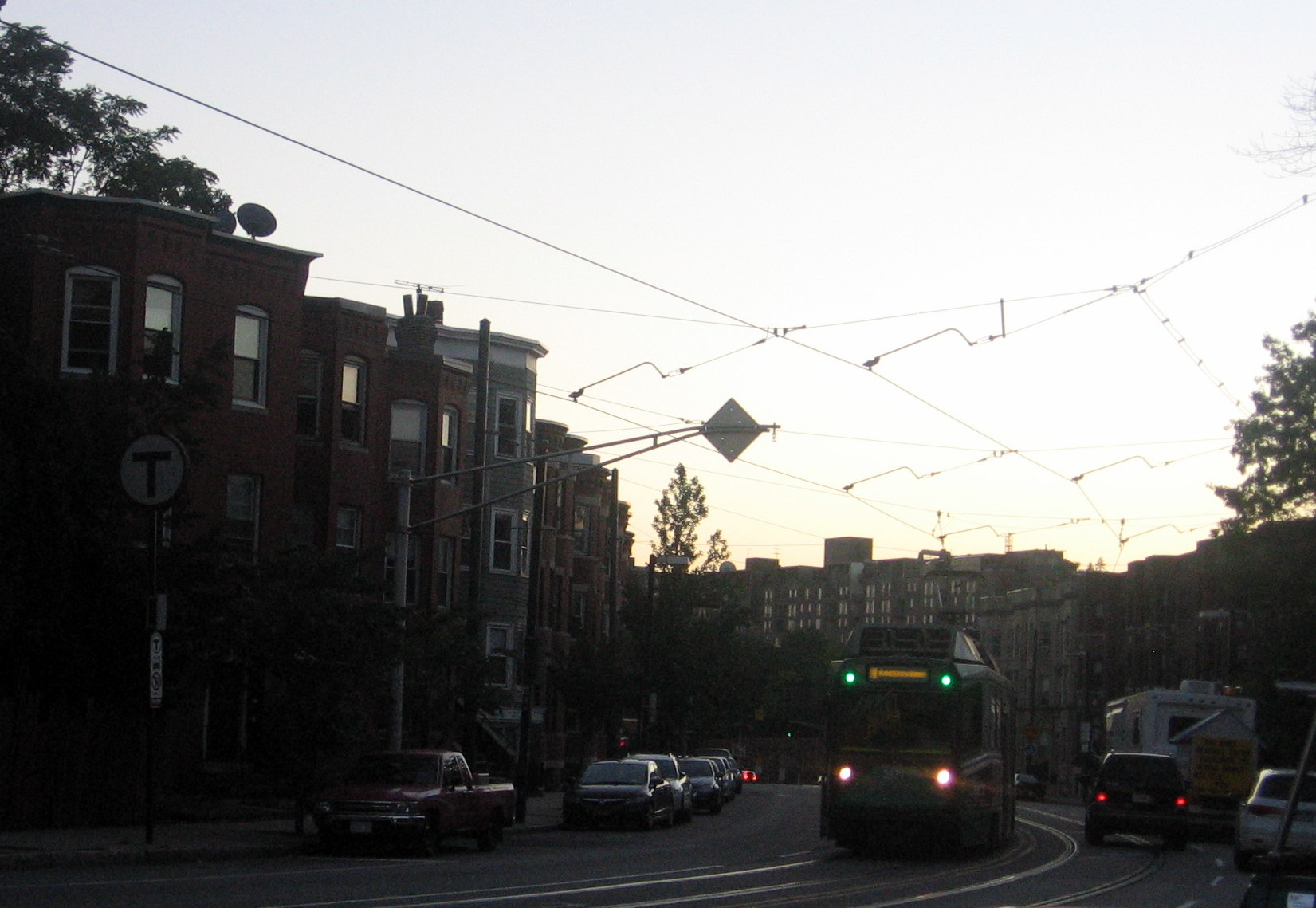 Inbound Green Line train at Mission Park stop in October 2011